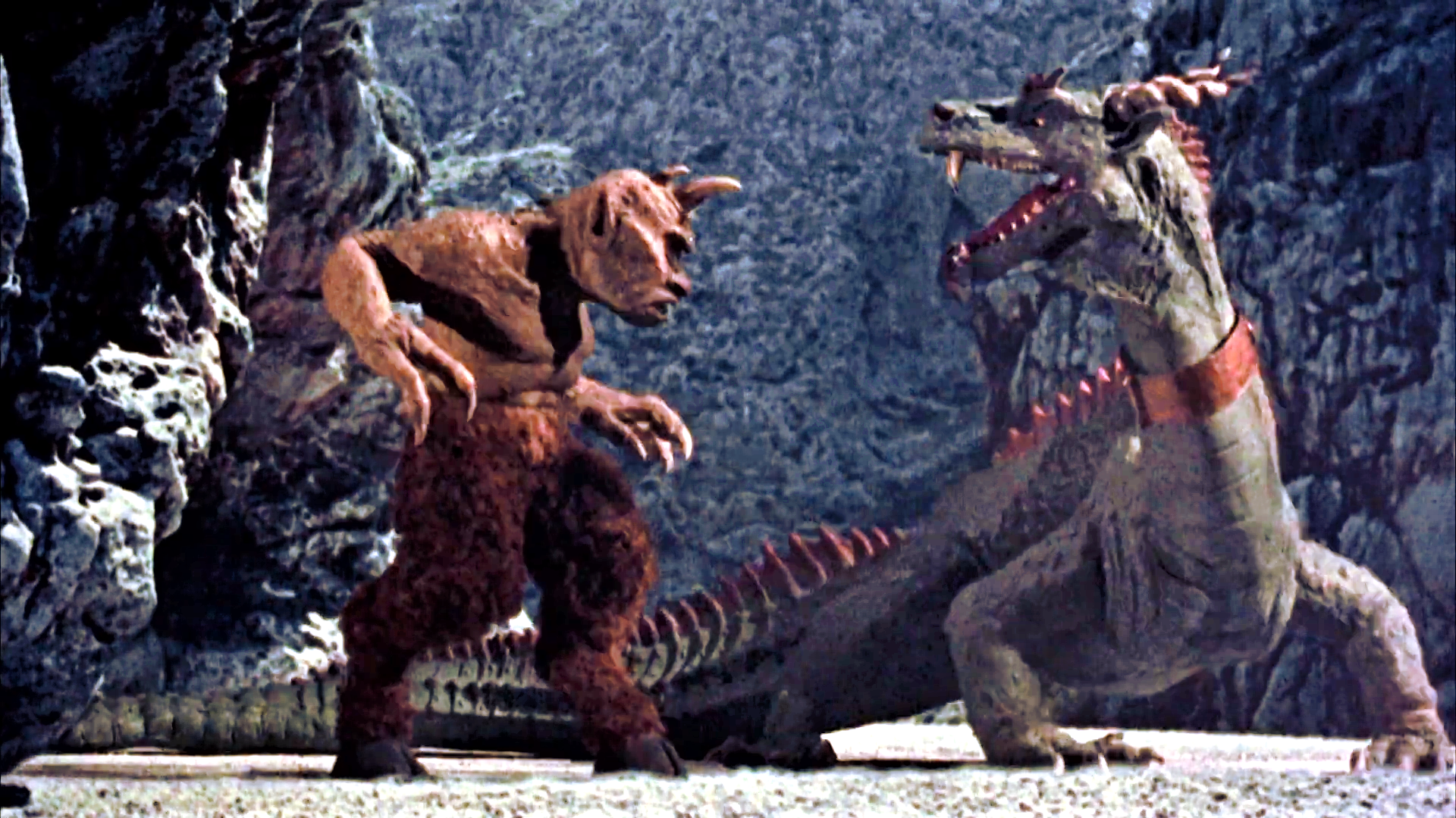 Cyclops battles the dragon, The 7th Voyage of Sinbad.